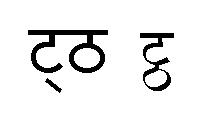 Comparison of Mangal and Arial Unicode MS fonts ability to handle the ट्ठ ligature.